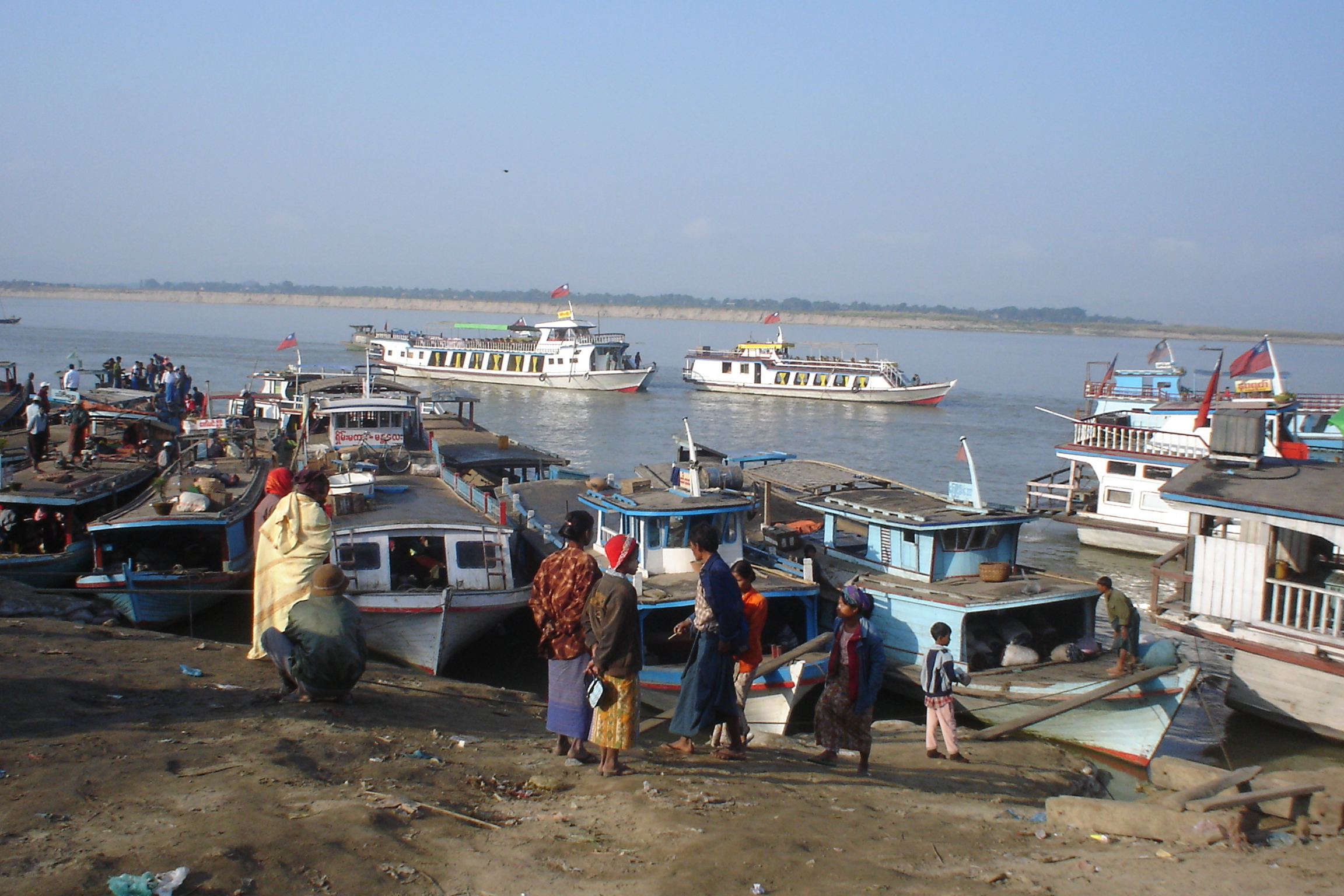 Mandalay's river harbour on the Irrawaddy banks